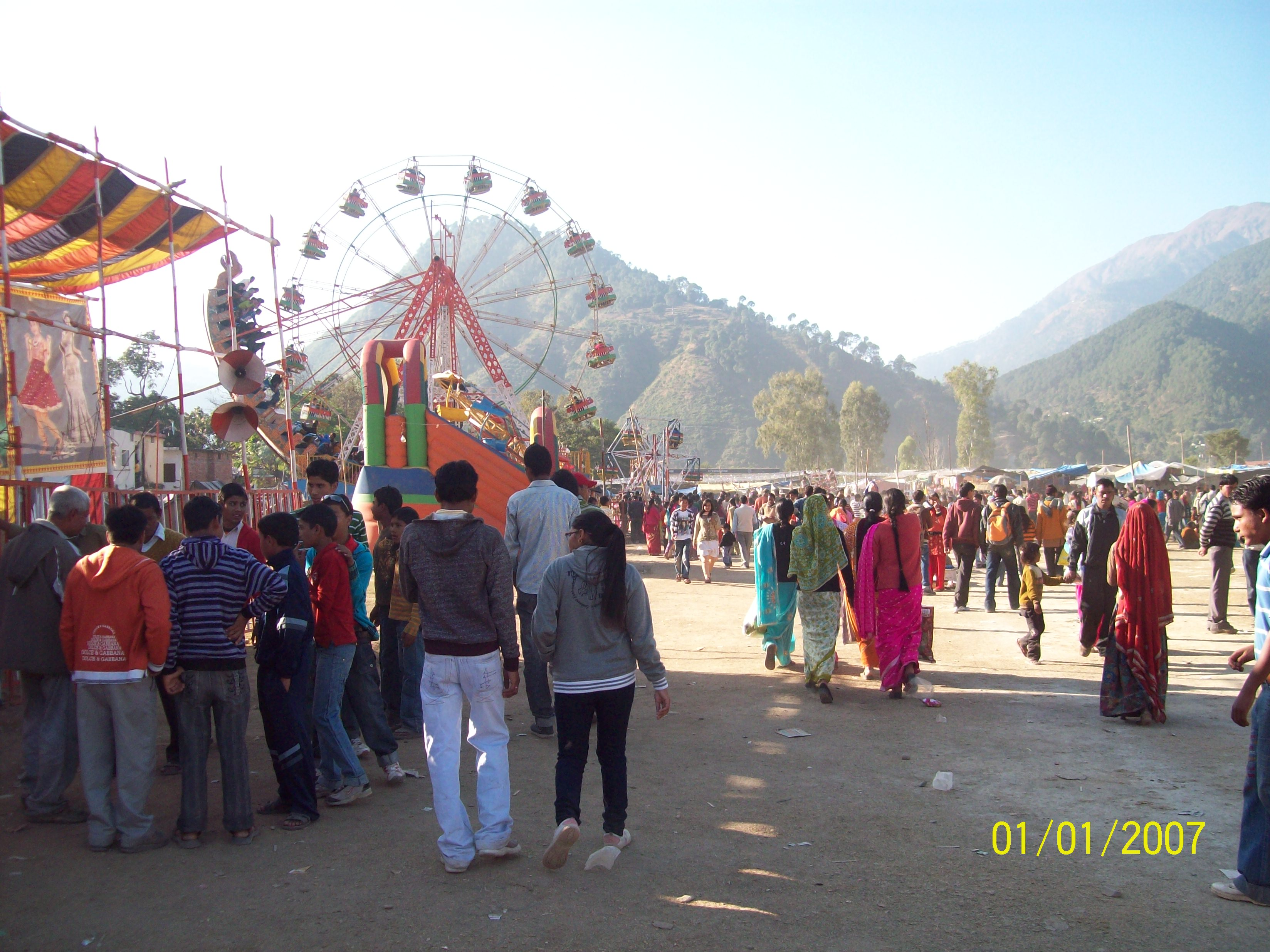 Gauchar Mela of Uttarakhand is a great attraction for the local people and the traders and mercahnts from every corner of the state. Held every year for a week starting from 14th November, Uttrakhand's Gaucher mela is fundamentally an industrial fair. It is attended widely by tourists and inhabitants of the state alike. The cultural programs like the local dances and songs always remains a major attraction of Gauchar mela at Uttarakhand.